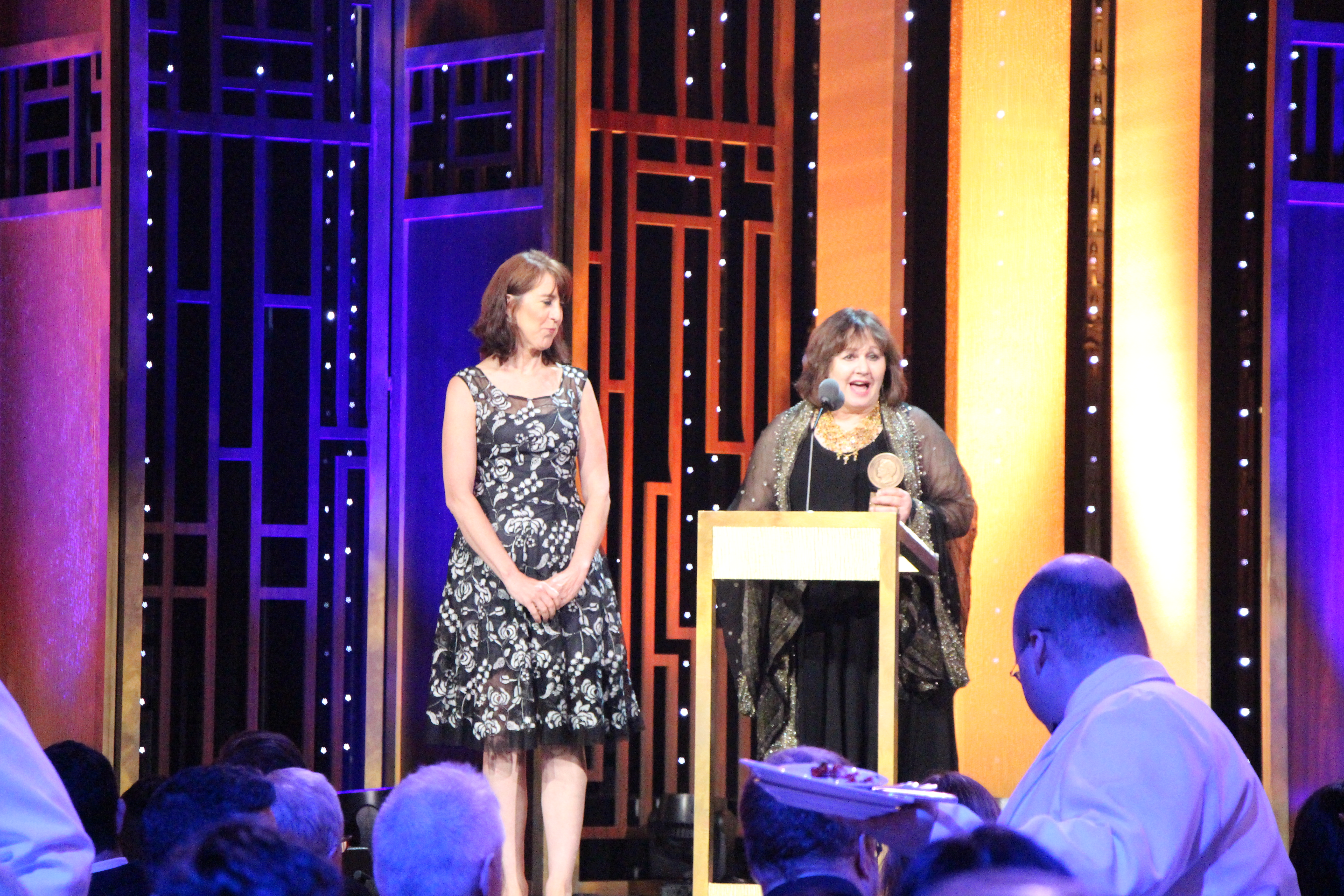 This photo includes Executive Producer of Independent Lens, Lois Vossen, and Director of "India's Daughter" Leslee Udwin. (Photo/Sarah E. Freeman/Grady College, in New York City, Georgia, on Saturday, May 21, 2016)